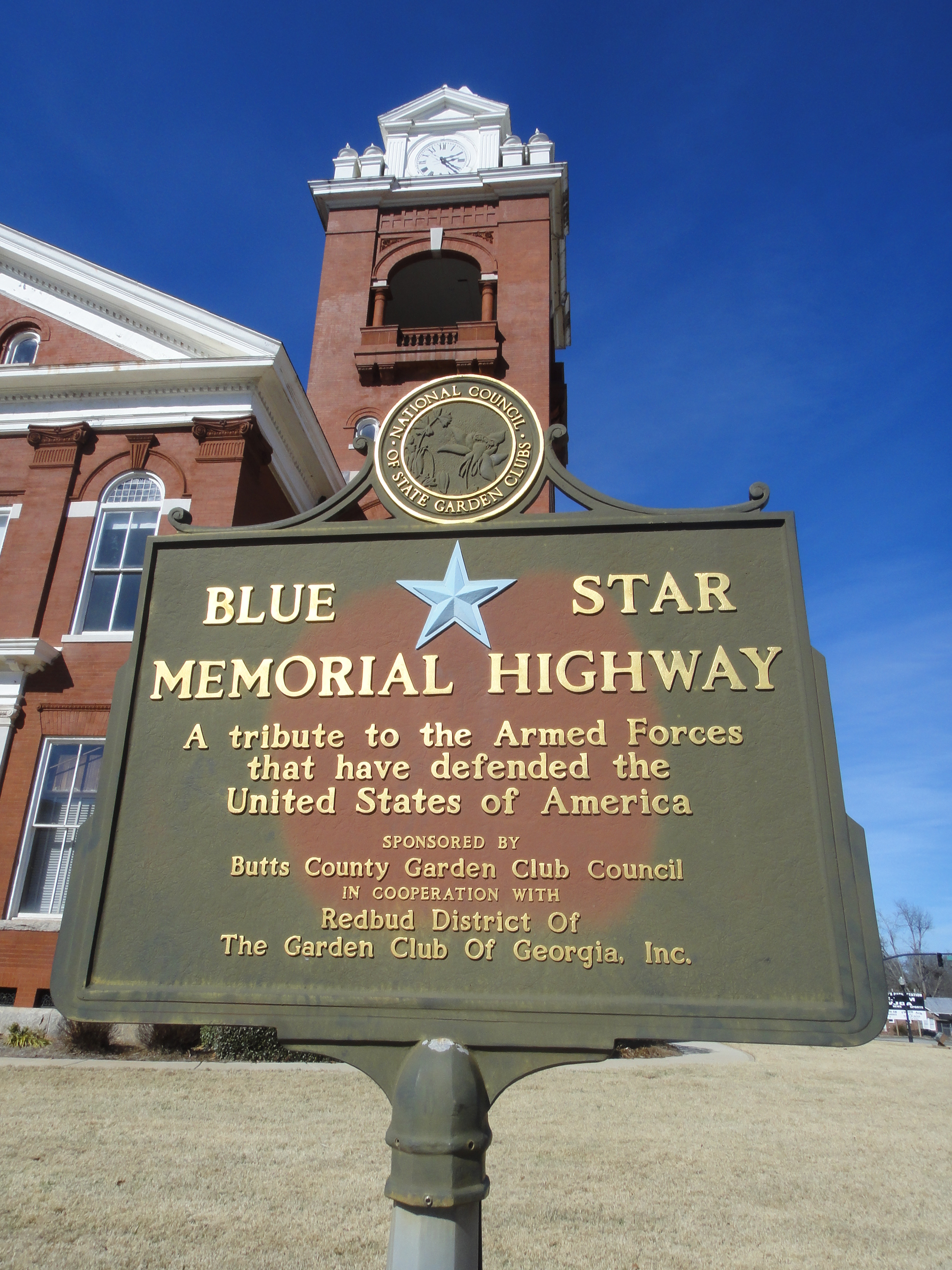 Blue Star Memorial Marker at the Butts County Courthouse in Jackson, Georgia.